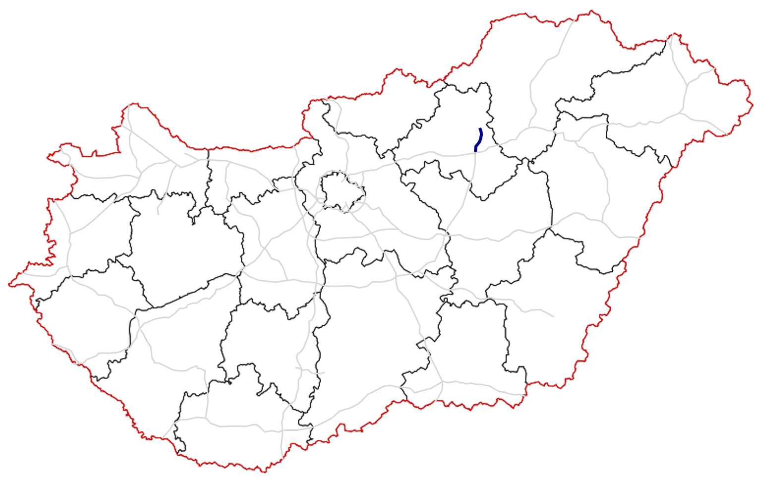 Traject the R25 Fastway, Hungary (Blue: in use, Light blue: under construction, Green: planned)